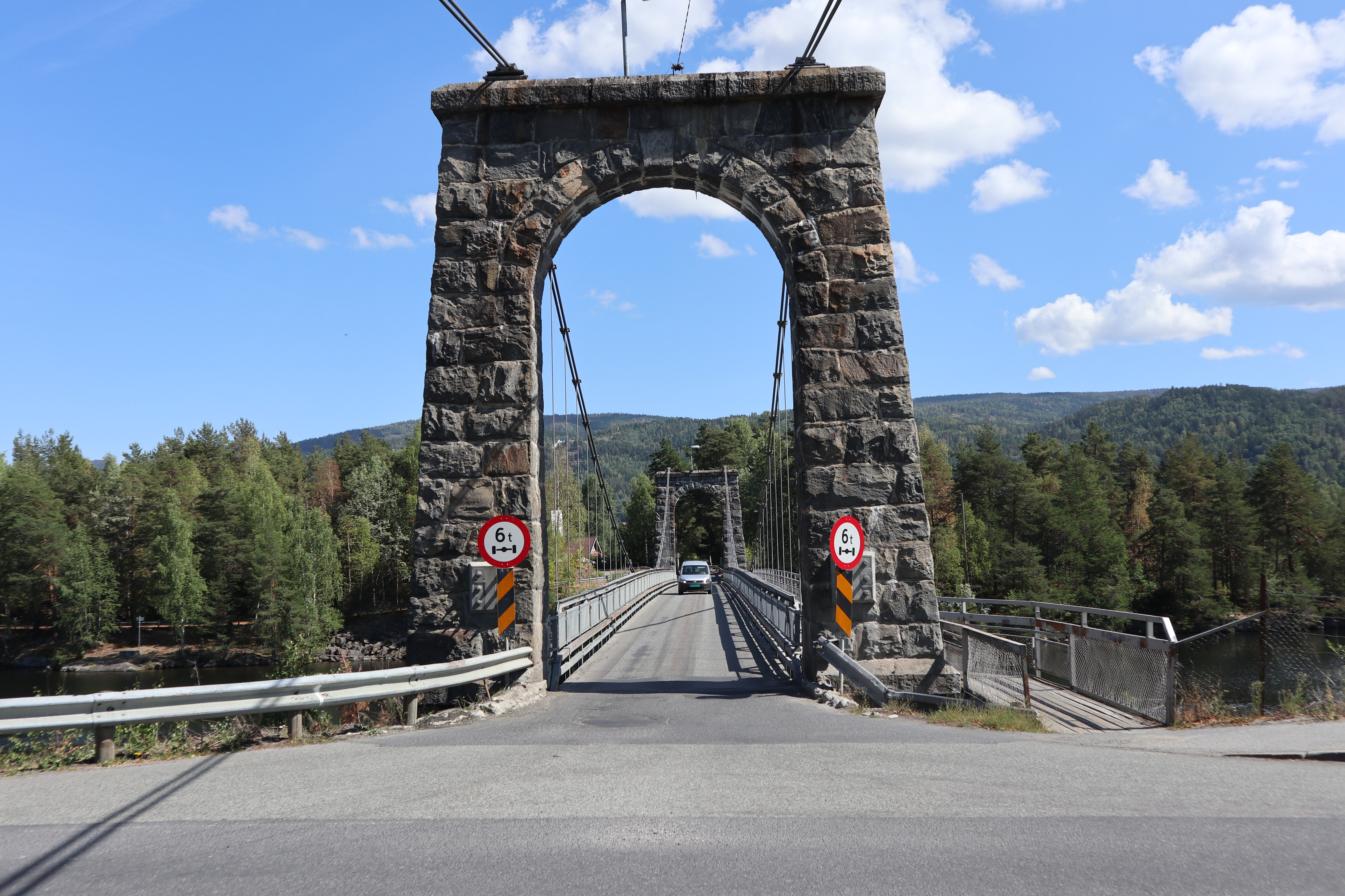 Geithus bridge in Norway